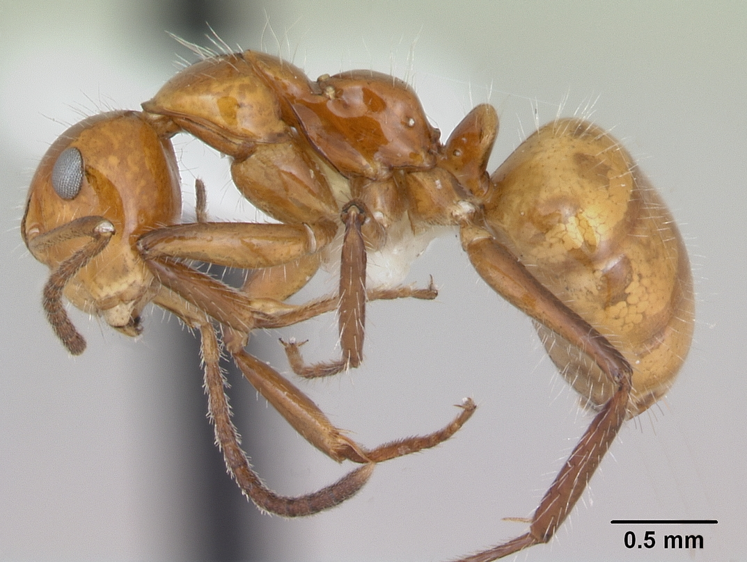 Profile view of ant Camponotus dimorphus specimen casent0173413.